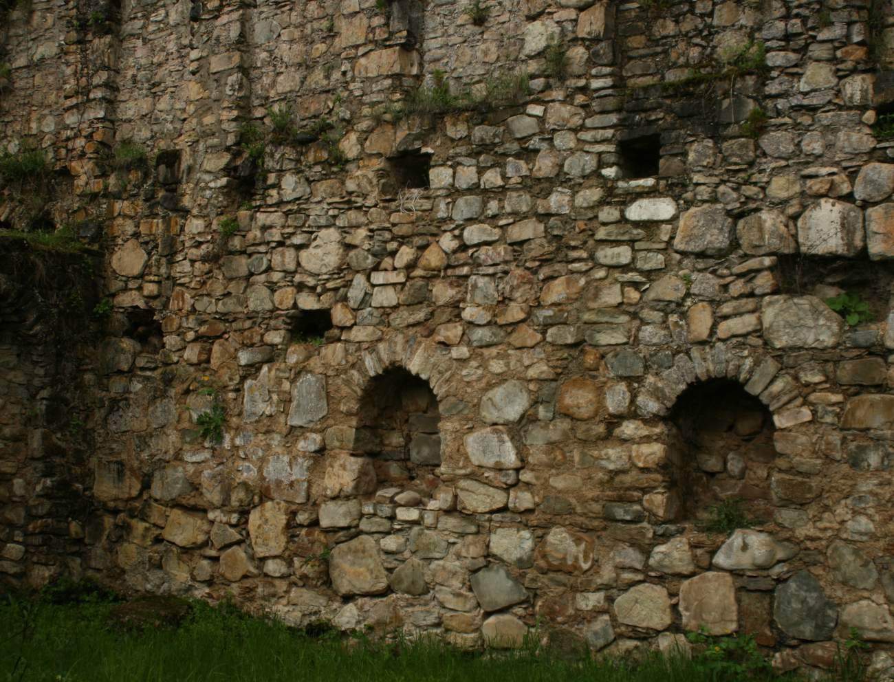 Ikalto monastery. Ruins of Academy